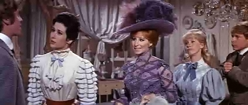 Screenshot of Michael Crawford, Marianne McAndrew, Barbra Streisand, E.J. Peaker and Danny Lockin from the trailer for the film Hello, Dolly! (film).